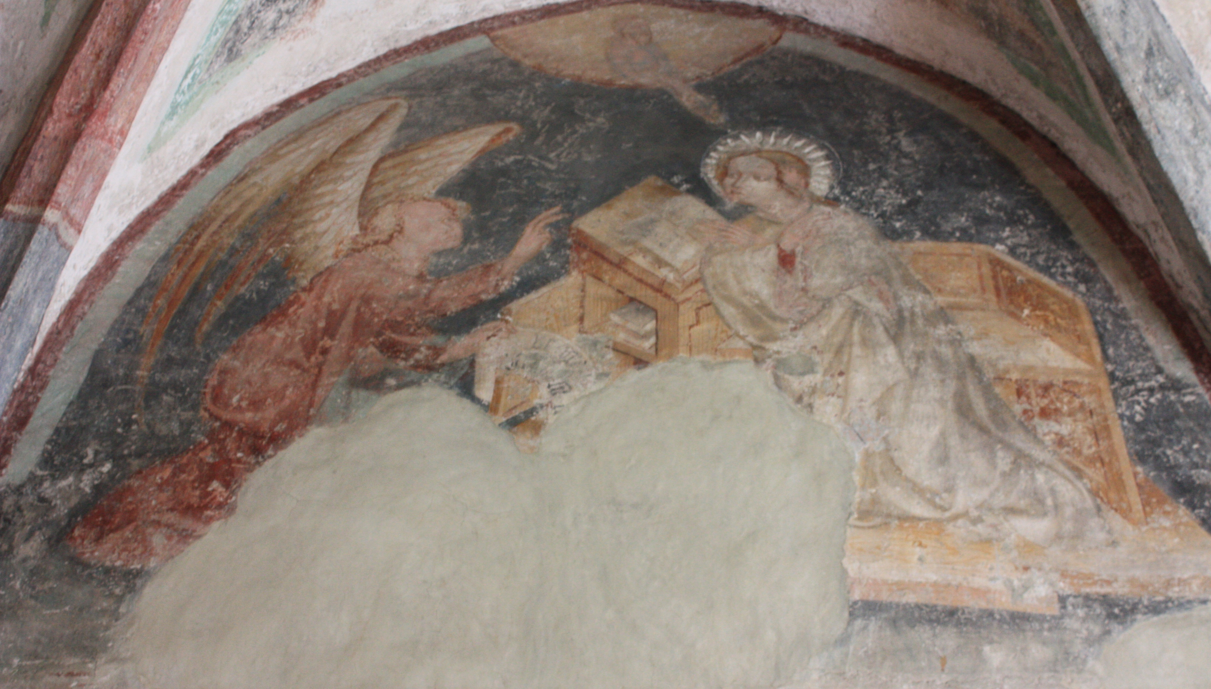 Parish church Saint John Ev. - Fresco - Annunciation Locality:Weitensfeld Community:Weitensfeld